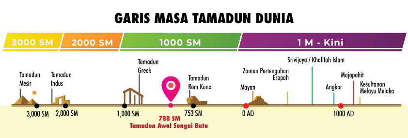 Garis Masa Tamadun Dunia